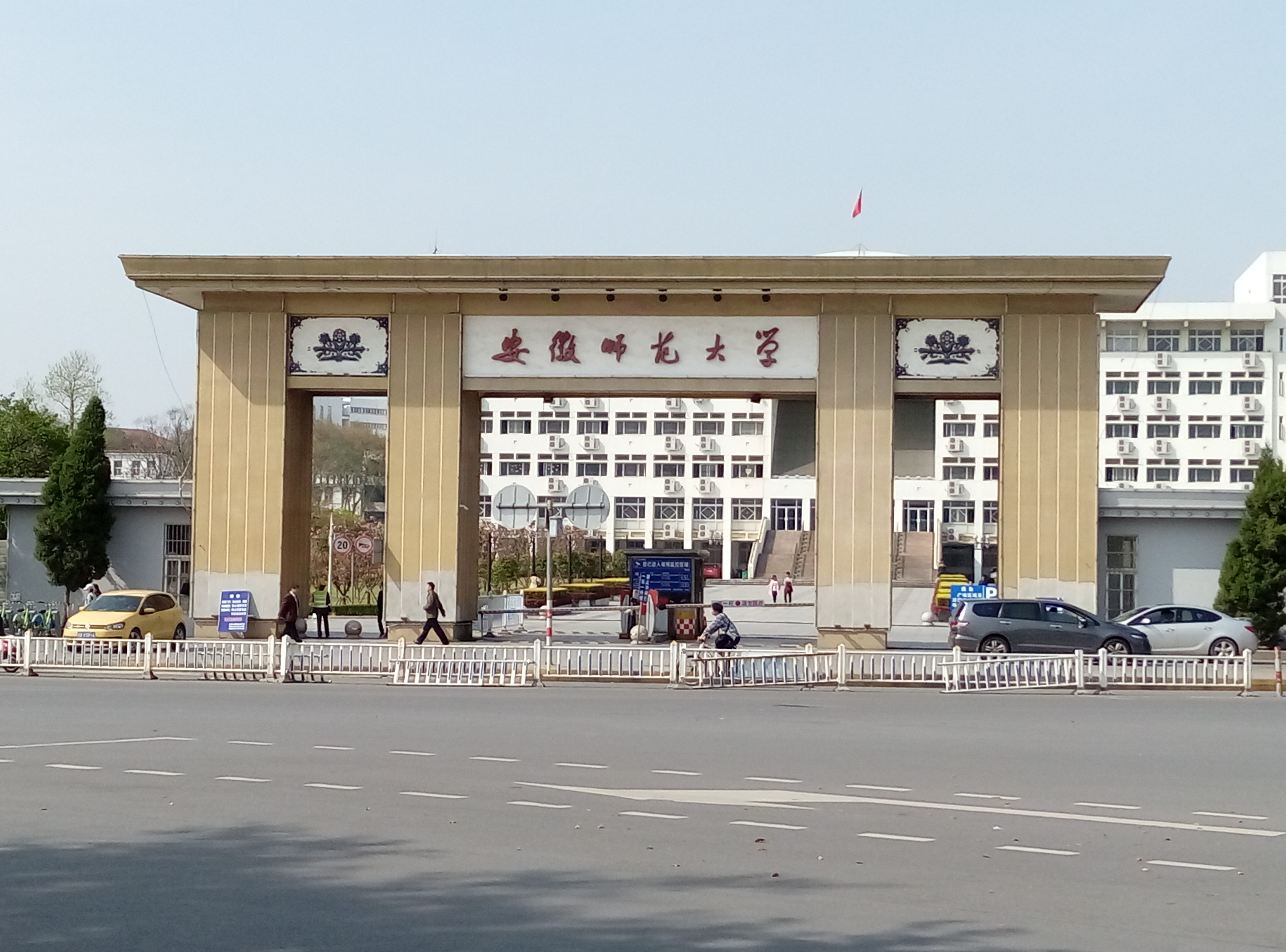 Gate of AHNU of the Old Campus